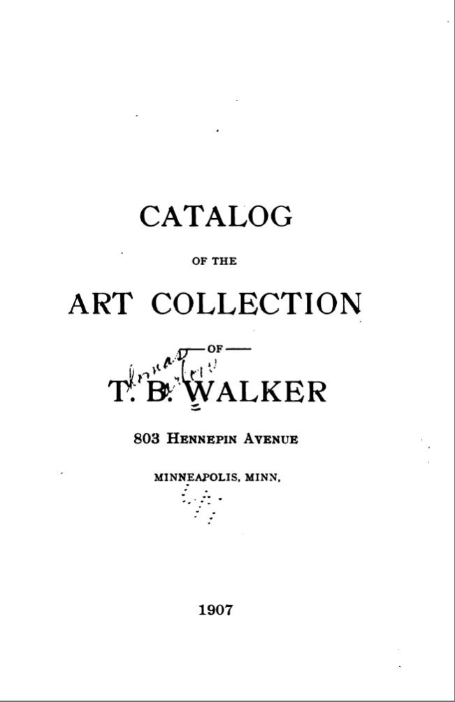 Title page of the 1907 Catalog of the Art Collection of T. B. Walker